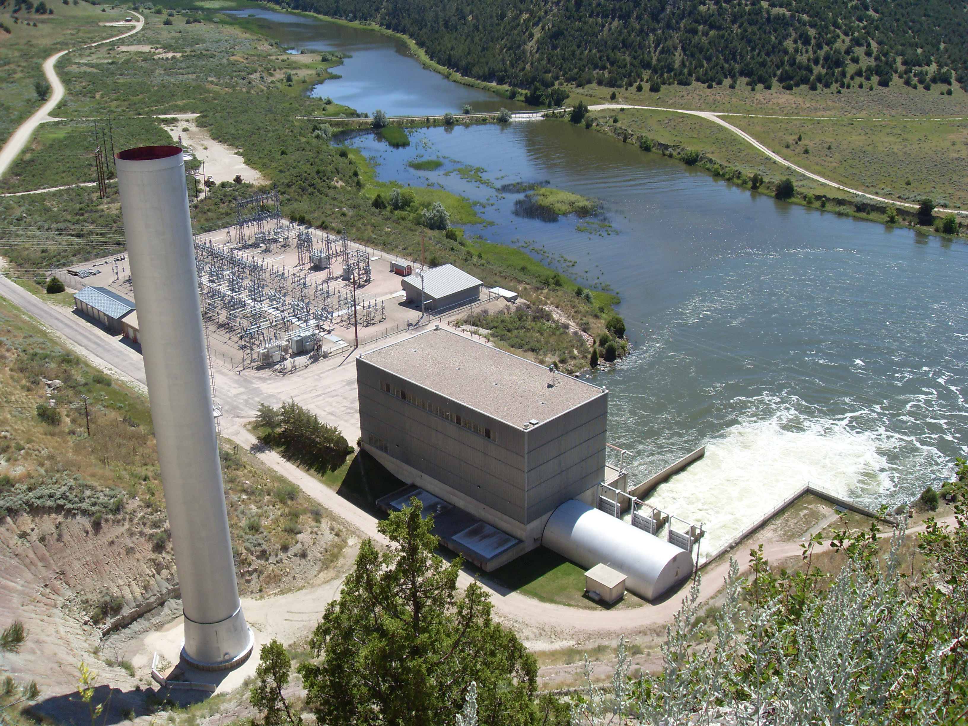 Hydroelectric power plant in Glendo State Park, Wyoming, USA